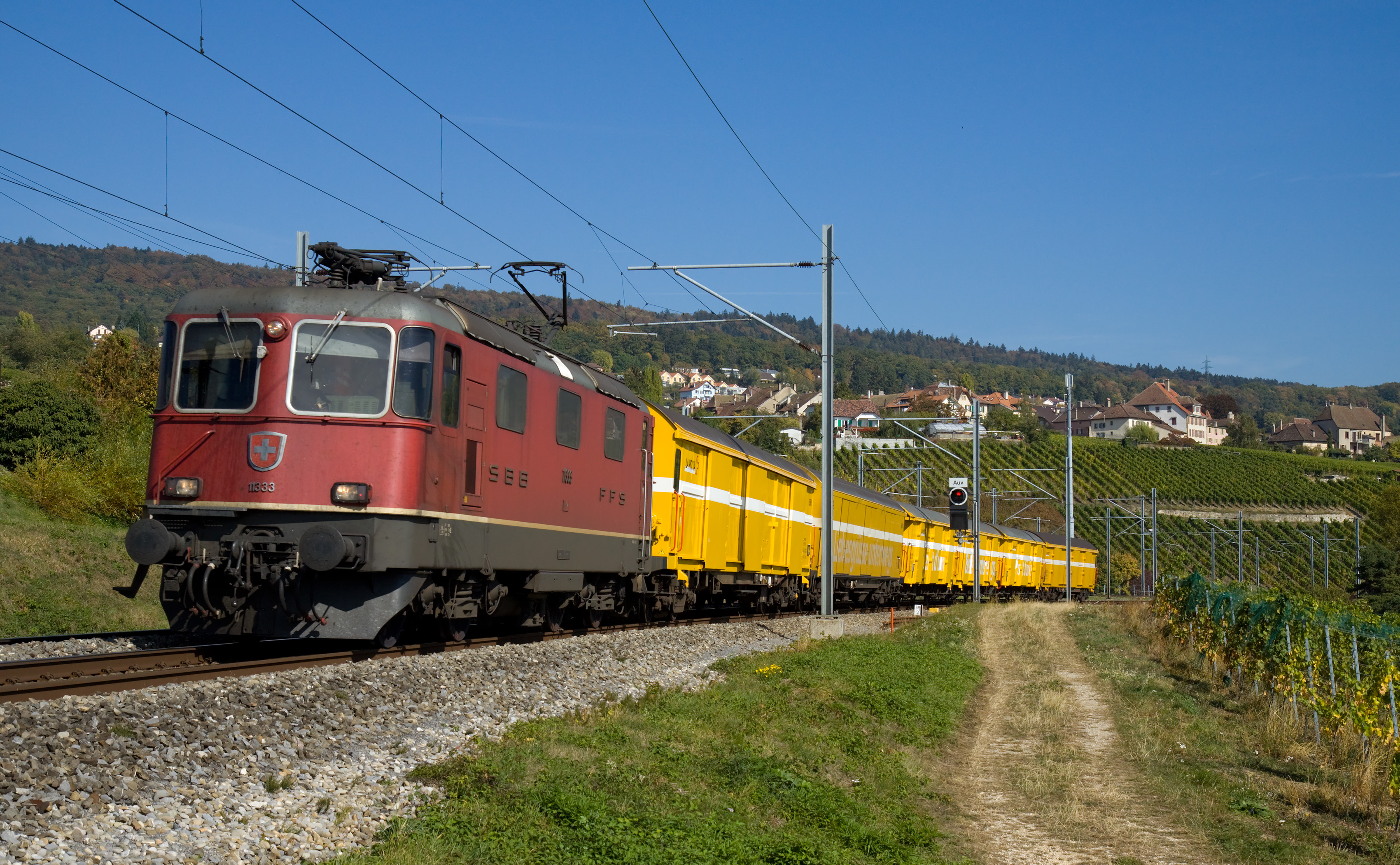 SBB Re 4/4 II hauling mail for the Swiss Post on the Jura foot railway line near Auvernier